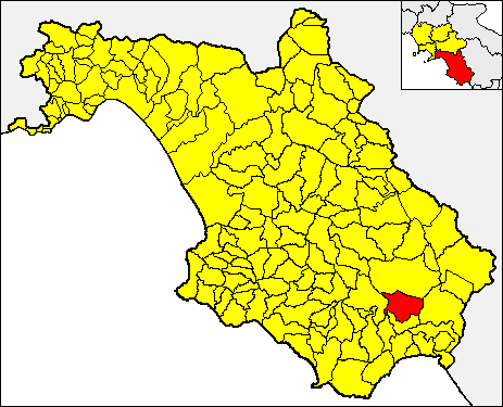 Locator map of the municipality of Caselle in Pittari (red) within the Province of Salerno